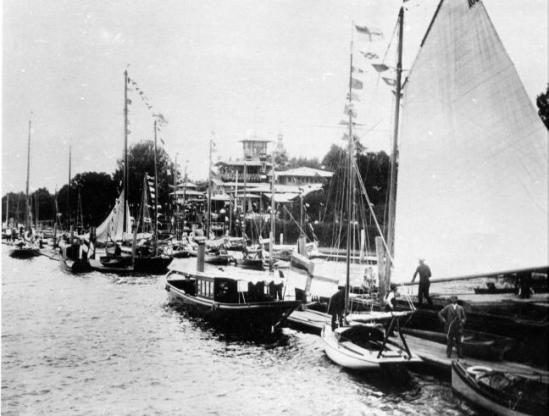 Yacht club in Saint-Petersburg (Krestovsky island)